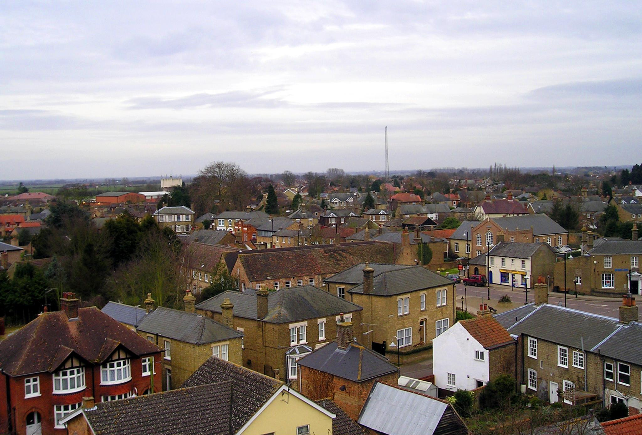 Aerial shot of Chatteris looking down West Park Street towards the Emmanuel Church, water tower and Cromwell School, taken from the top of the church tower, 2006.